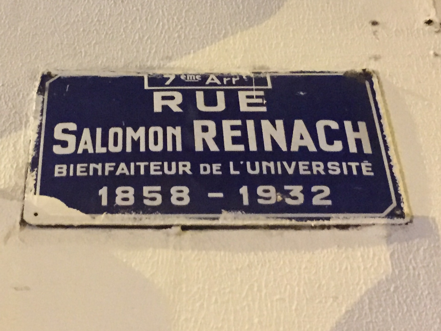 This photograph was taken with an iPhone 6